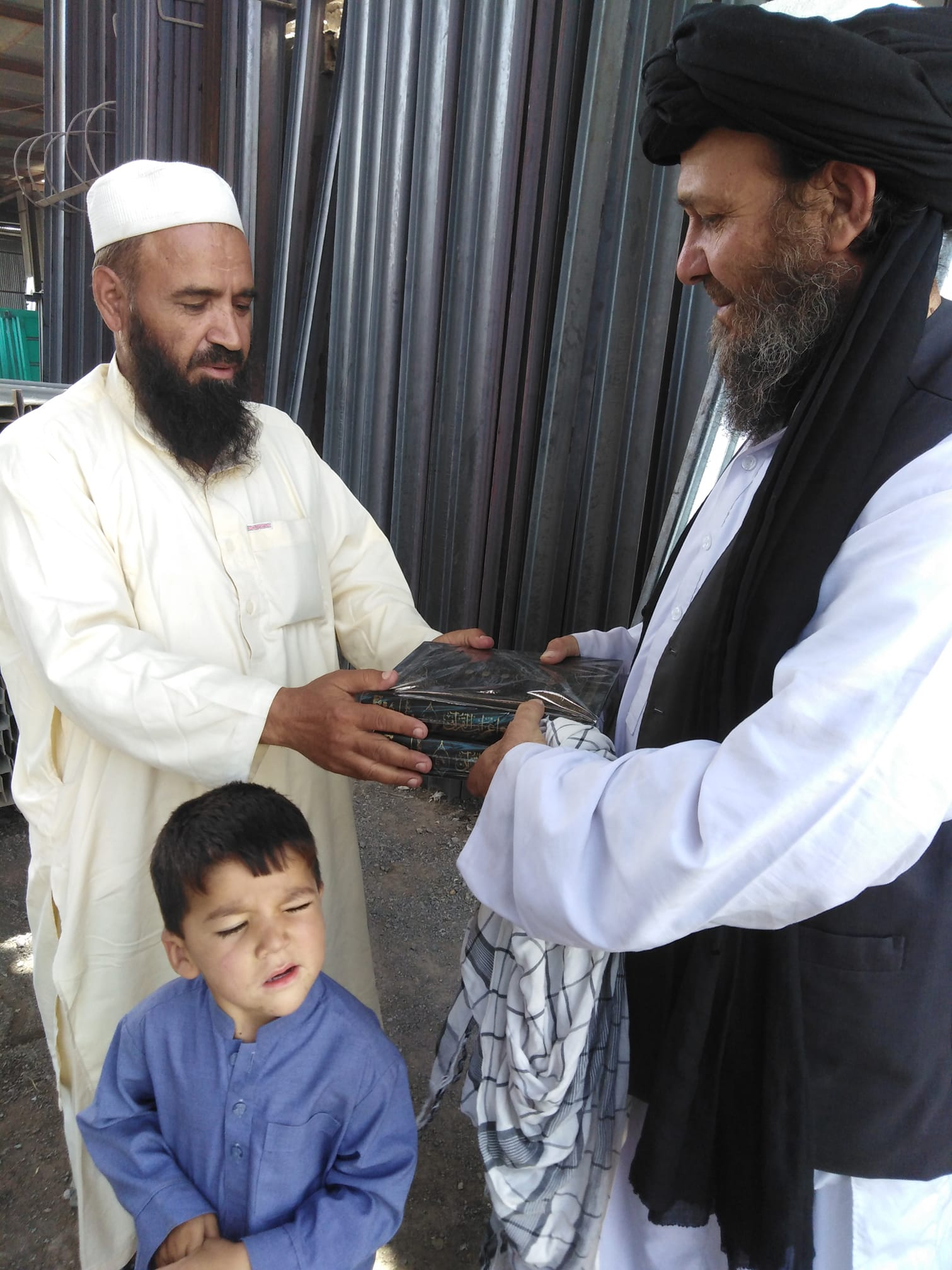 پگڑی والا مولانا عبد الحلیم صاحب ہے